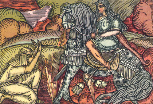 Sasuntsi David